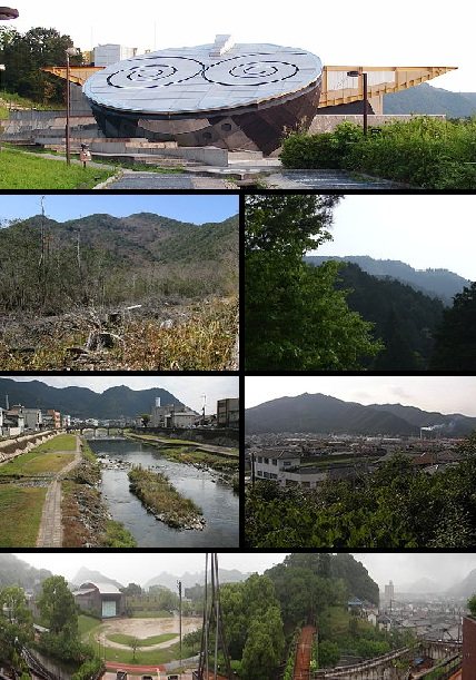 Nishiwaki montage